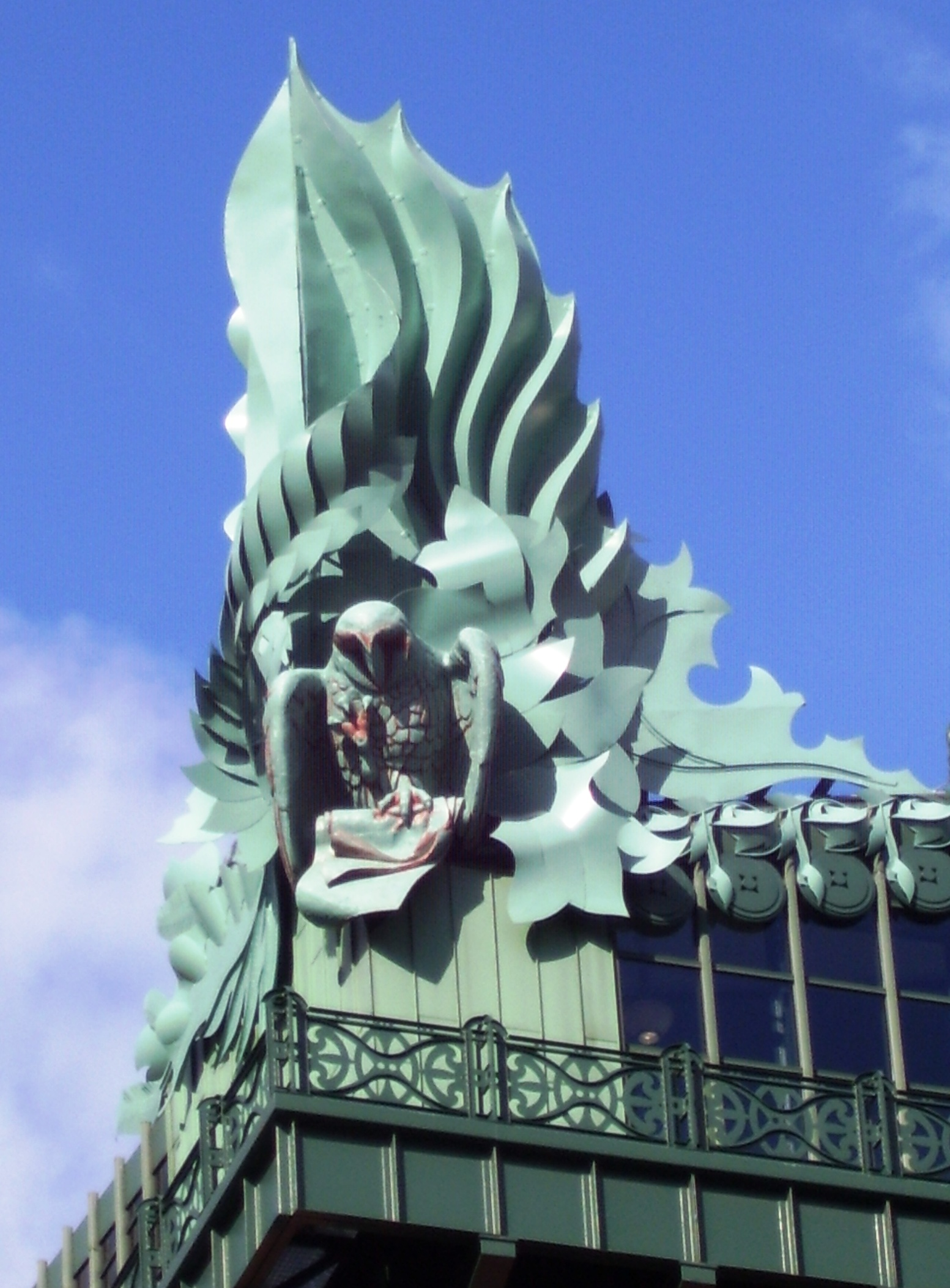 The Harold Washington Library Center of the Chicago Public Library at 400 South State Street in the Loop neighborhood of Chicago, Illinois was completed in 1991 and was designed by Hammond, Beeby and Babka (now Hammond Beeby Ruppert Ainge).